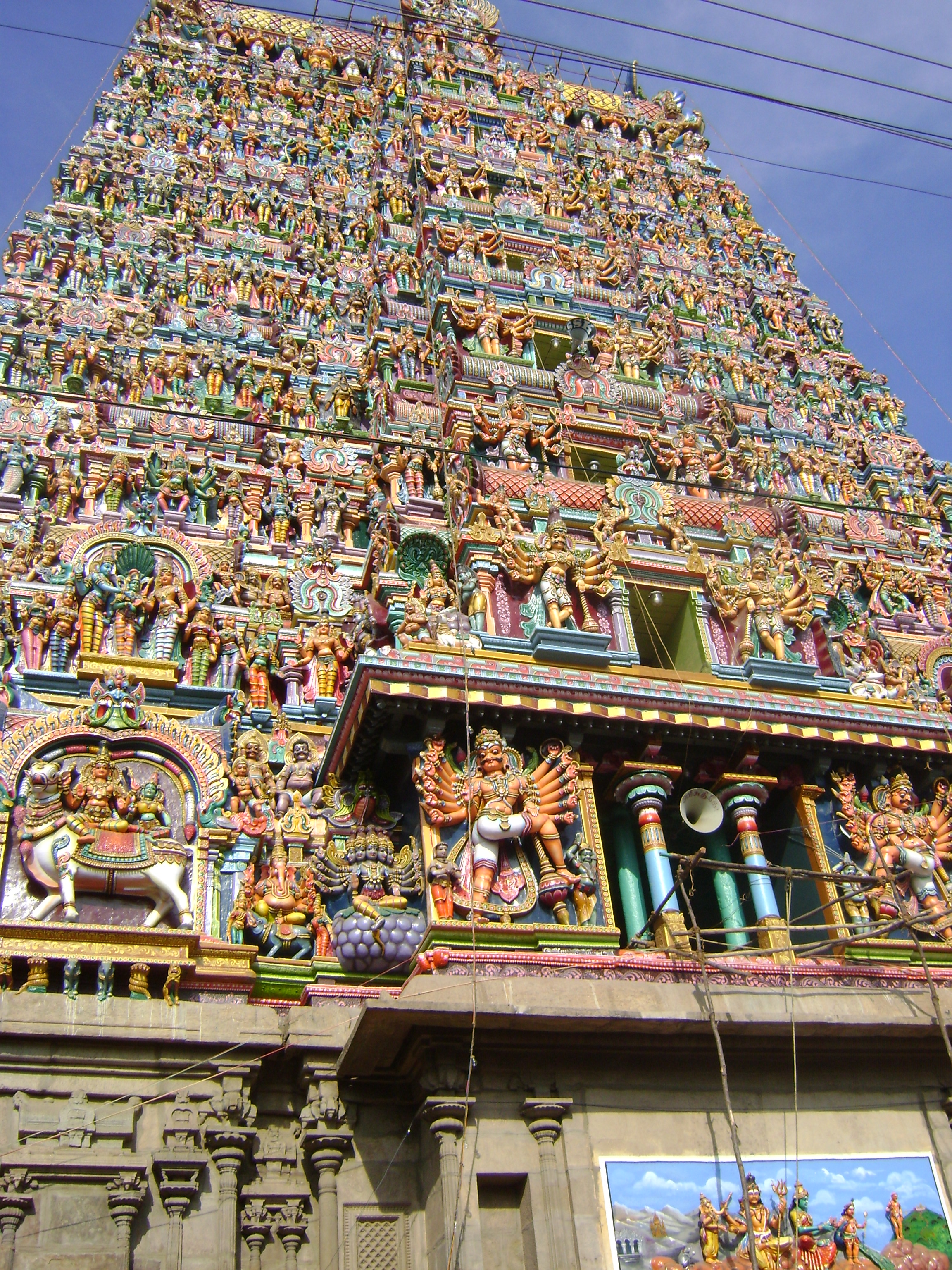 One of the Tower of Sri Meenakshiamman Temple, Madurai